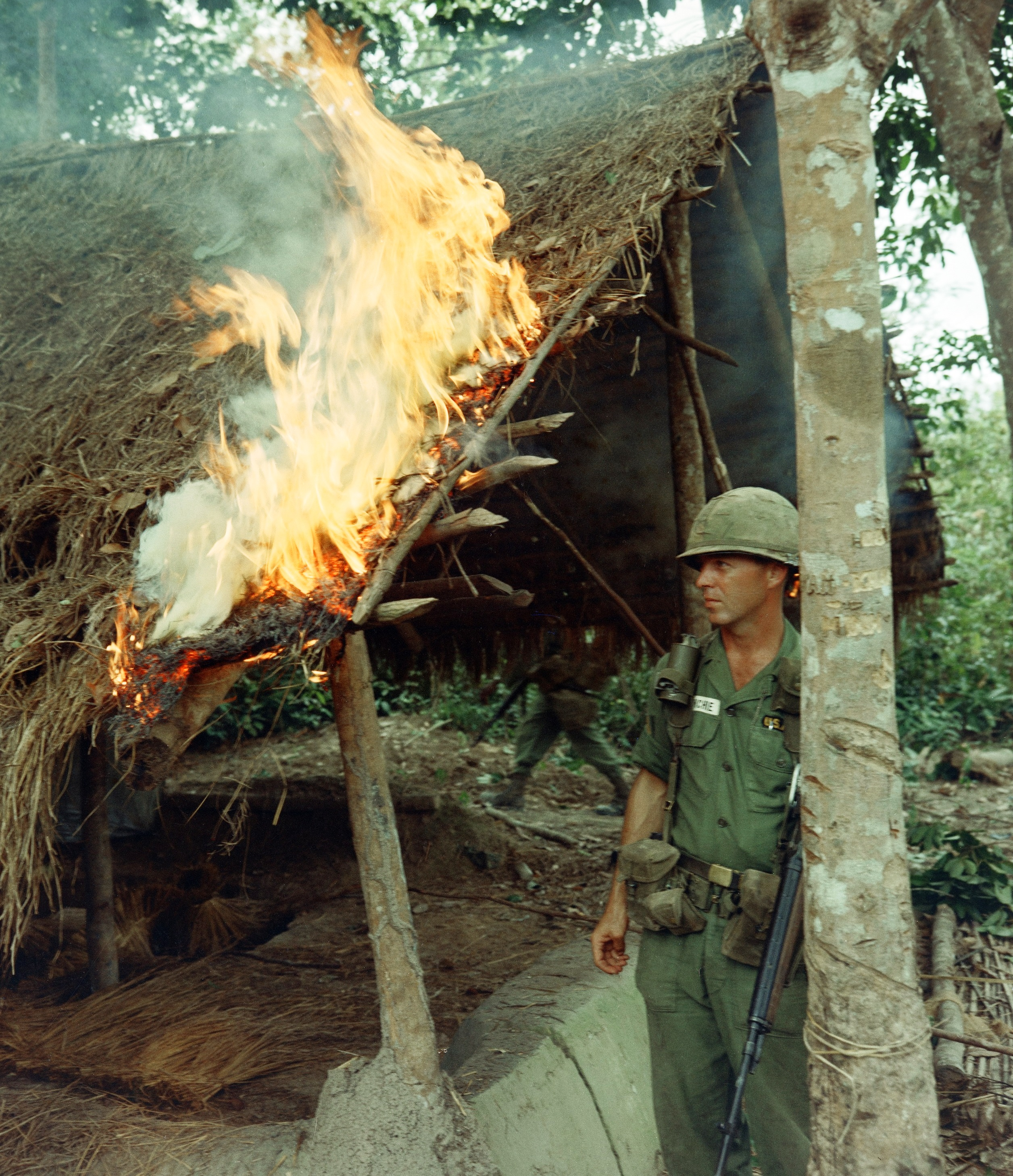 During Operation “Crimp” near Bien Hoa, RVN, the 28th Infantry, 1st Infantry Division found a Viet Cong village while on a search and destroy mission SGT Richard McConchie watches a fire he started. This structure was one of many found inside the village and destroyed.